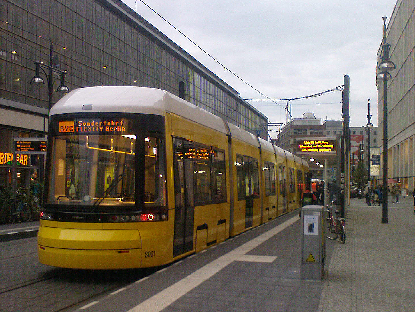 Flexity Berlin - new tramway type of Bombardier's Flexity series for the Berliner Verkehrsbetriebe (BVG)